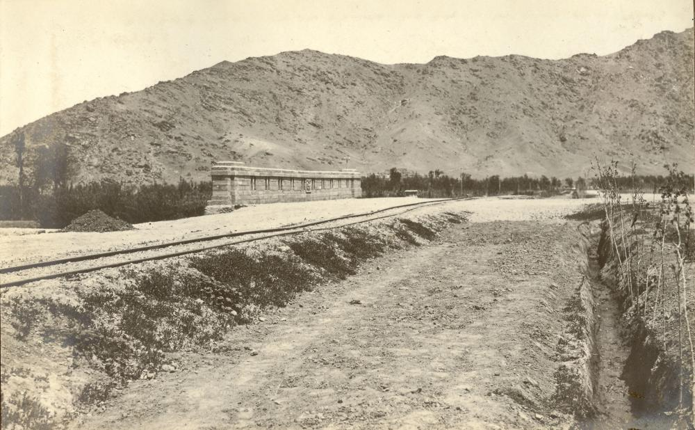 Kabul–DarulamanTramwayRailway line after the first rainTracks on the way after the first rainy days!(Installation of the railway line as it should not be made.)Afghanistan